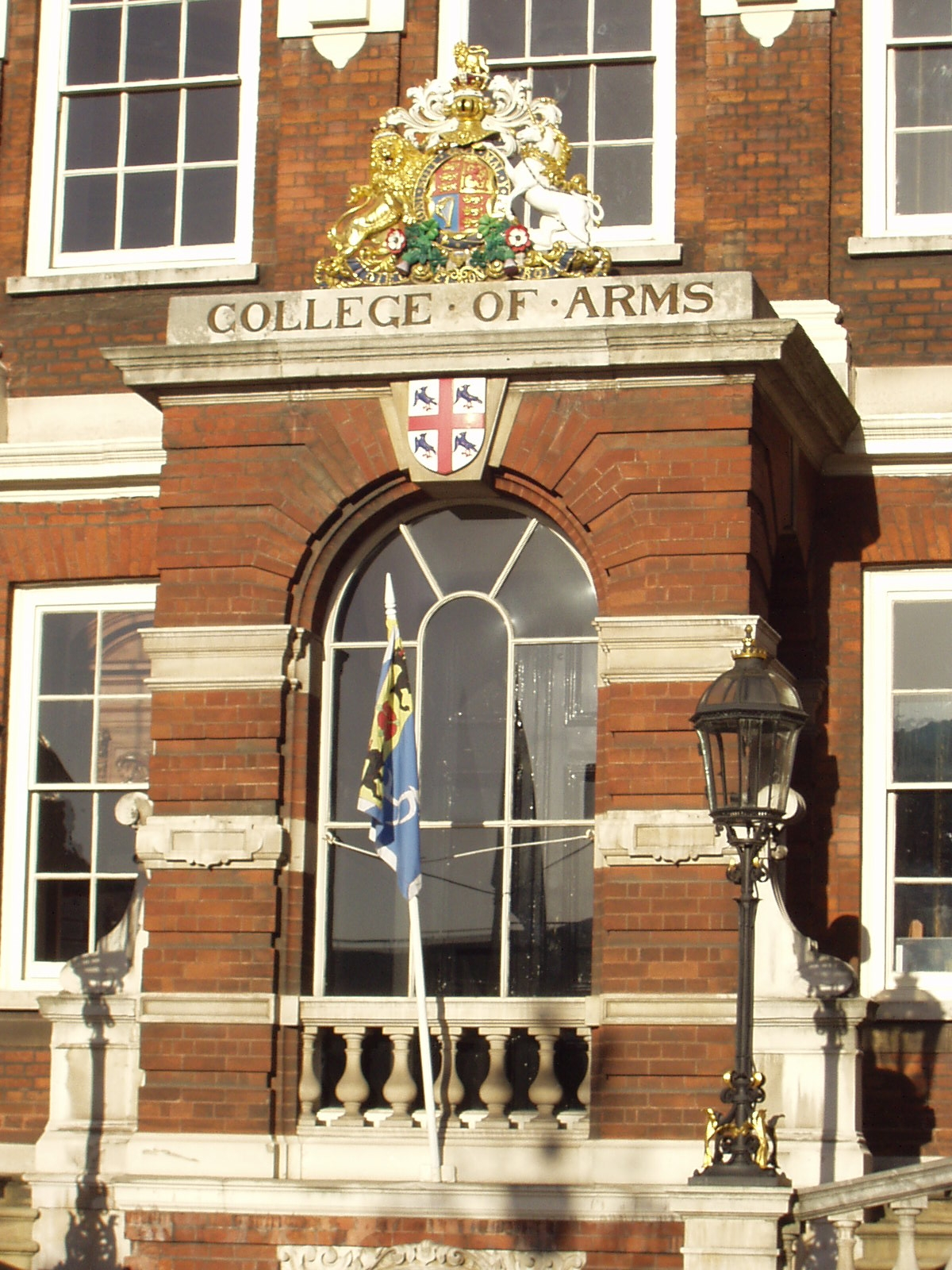 The entrance way of the College of Arms in London. Photograph taken by EVADB on 29 December 2005. The banner bears the coat of arms of William George Hunt, the officer in waiting on that day.